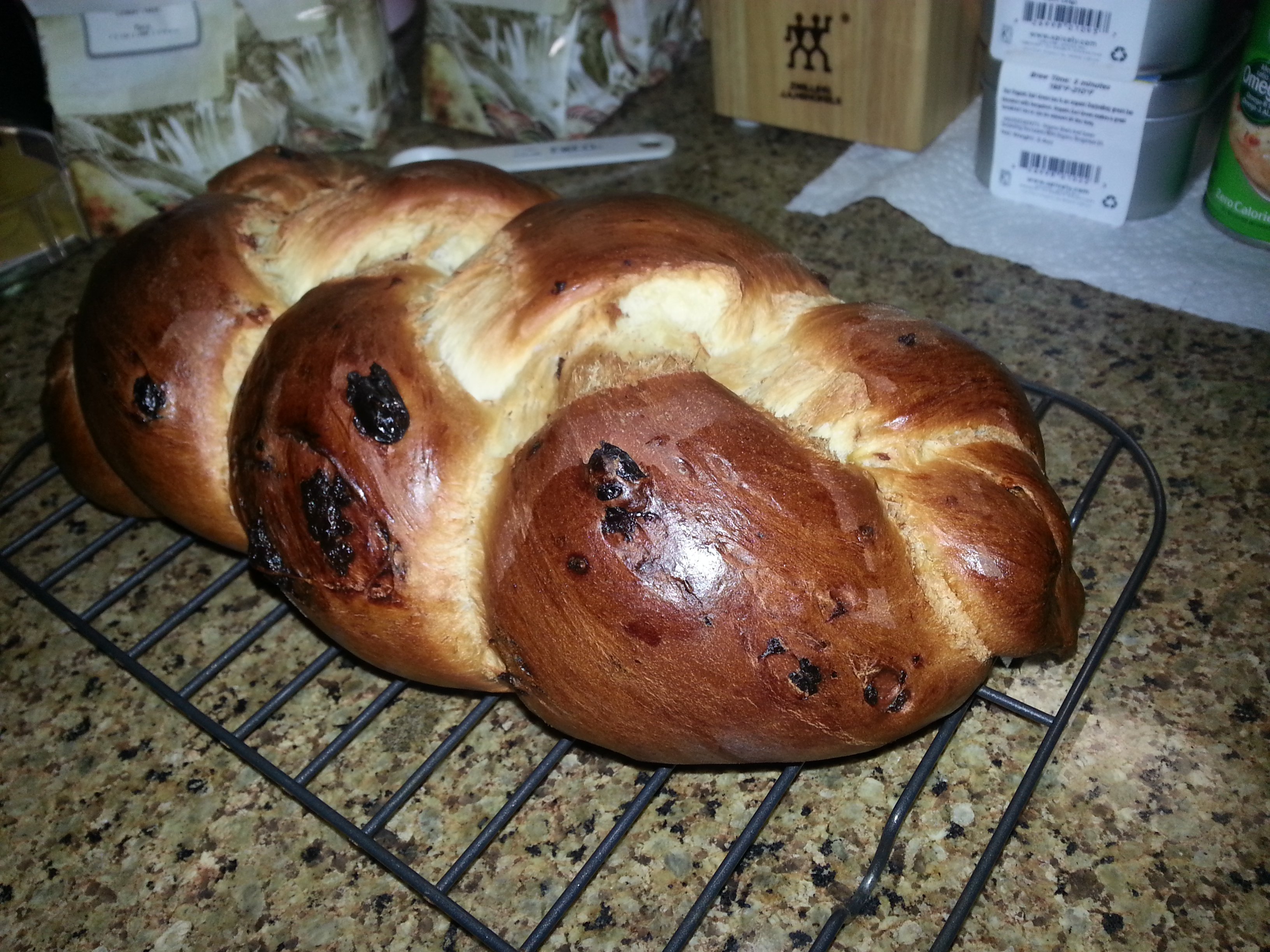 A loaf of raisin challa, a variety of raisin bread. Original description: "Went with 2oz of raisins in tje challah this week"